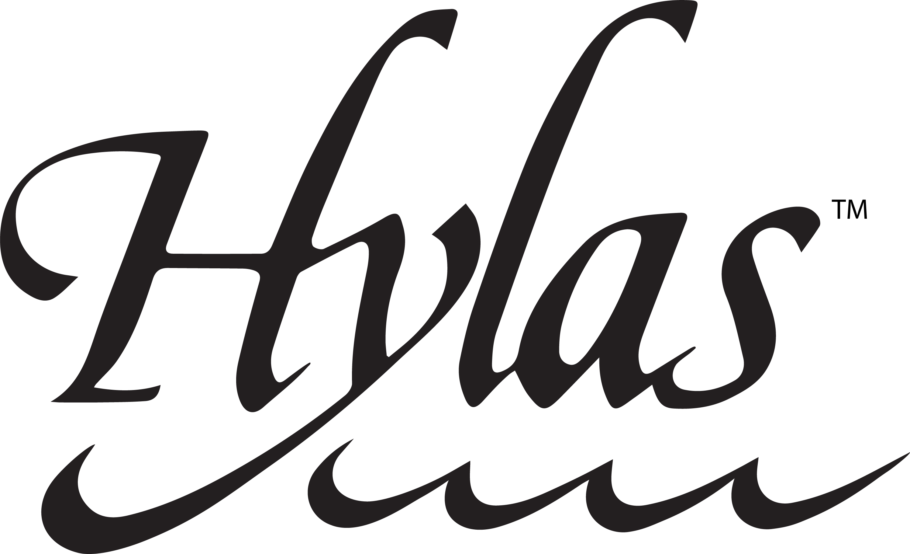 HYLAS YACHTS CORP